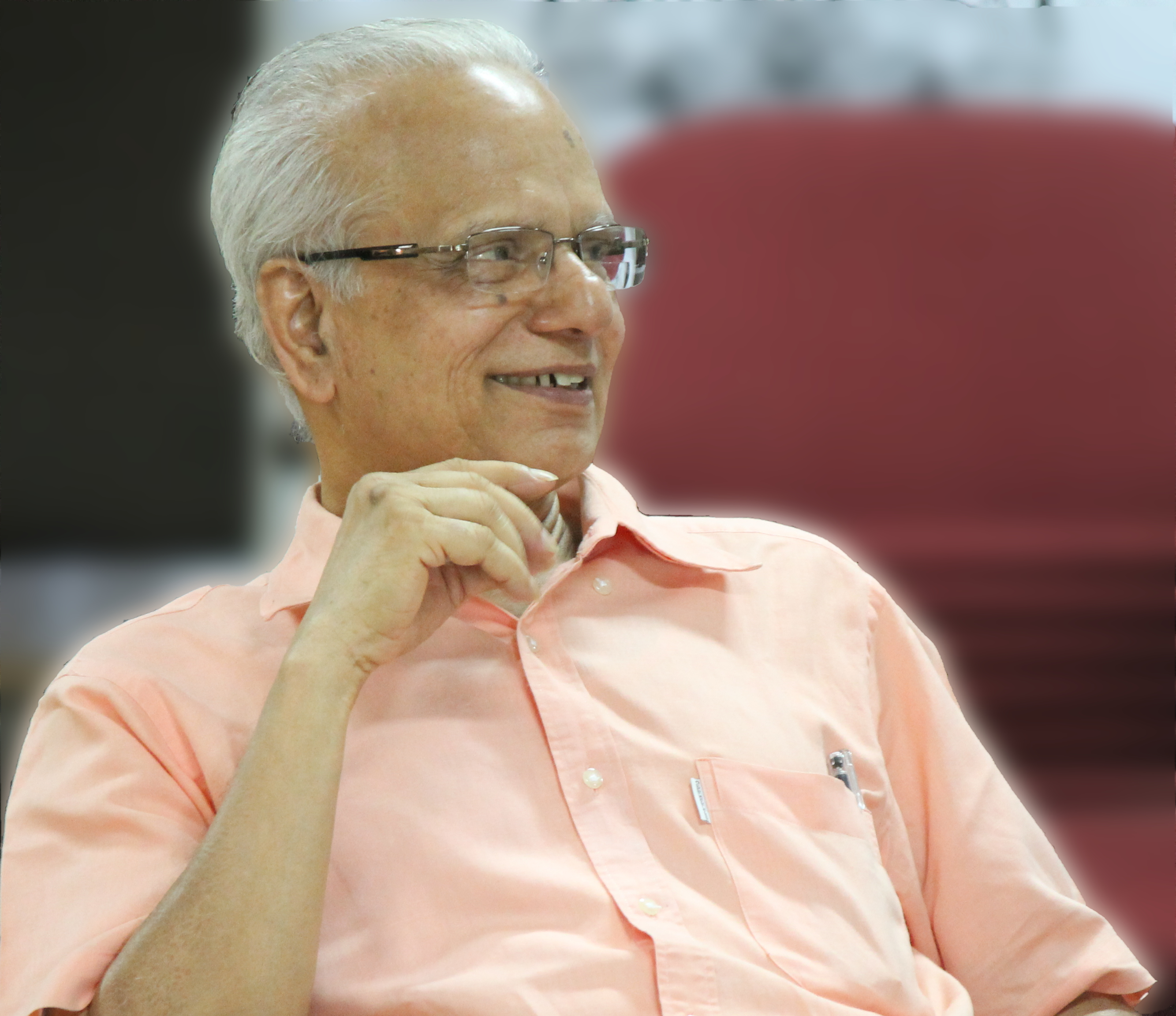 S Sivadas, Malayalam Writer, Malayalam Children's Writer, Science writer, Activist